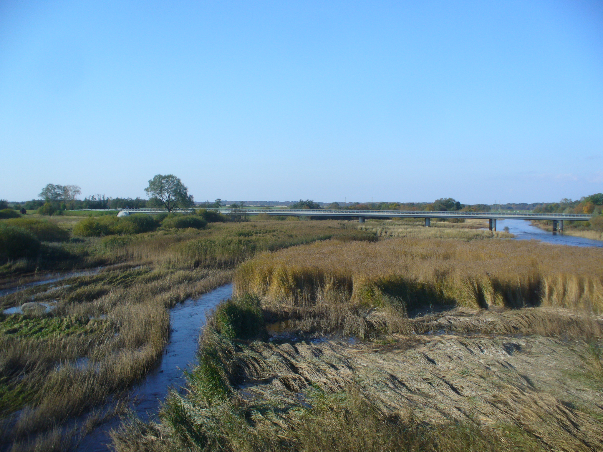 Kasari new bridge. View from old bridge. Lääne county, Estonia.